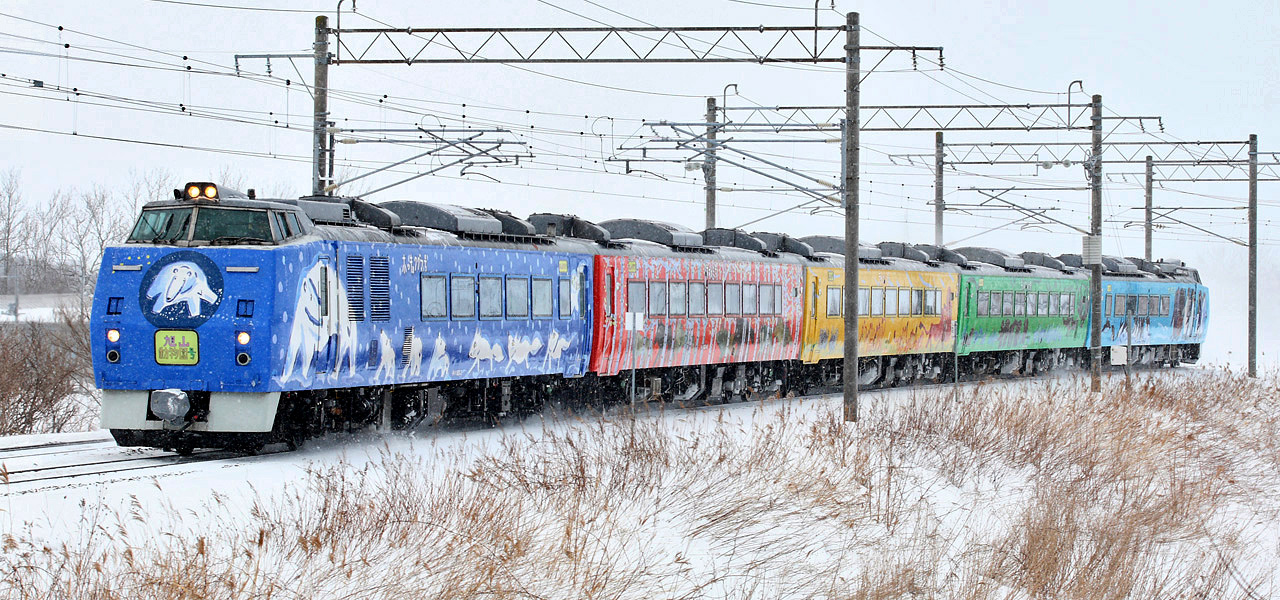 JR Hokkaido's JNR 183 series DMU ( LTD.Express Asahiyama Zoo Train, Kiha 183-3 and others. Ebetsu Stn. - Toyohoro Stn. )